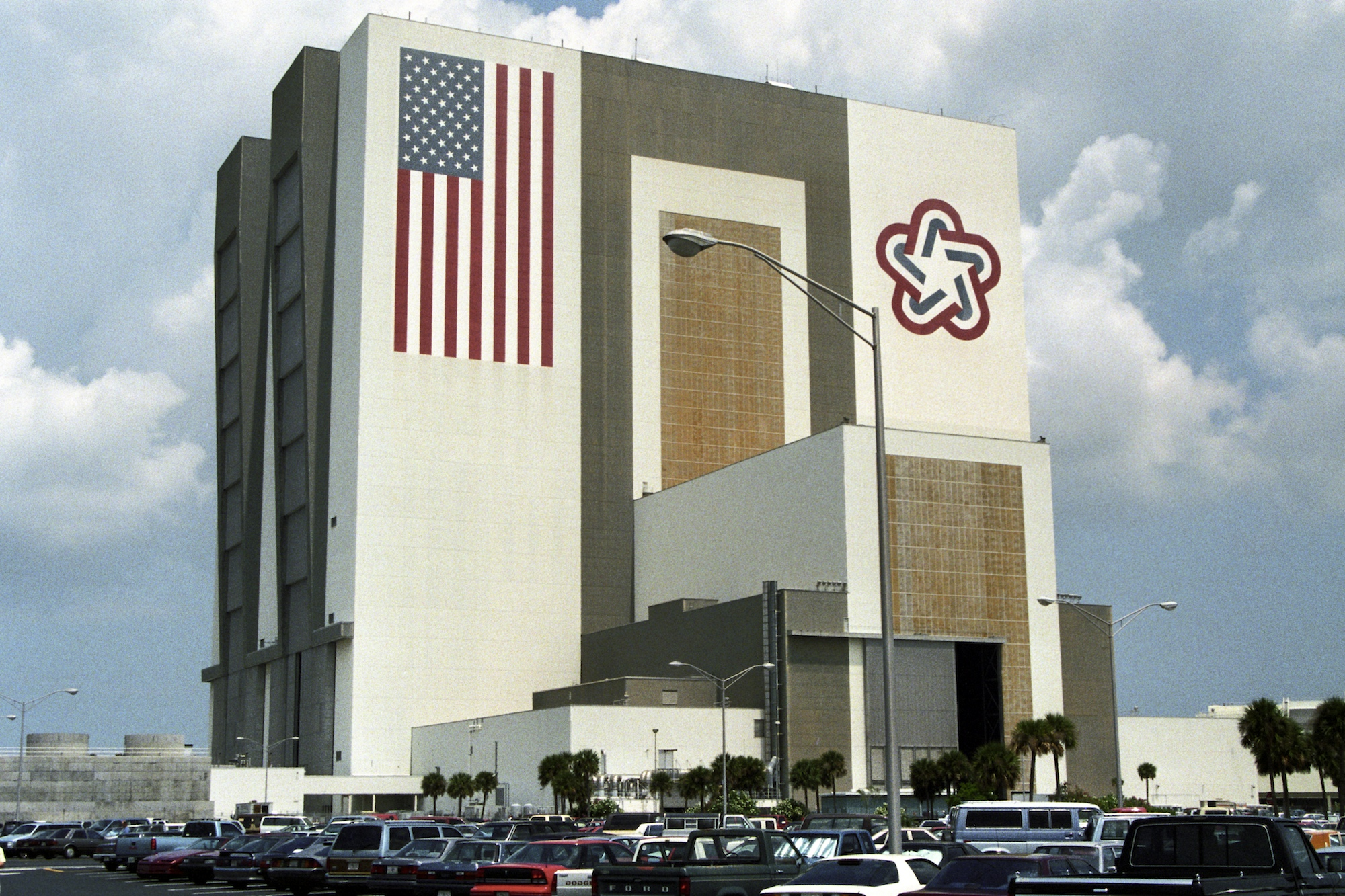 Vehicle Assembly Building at Kennedy Space Center, with vertical U.S. flag and the emblem of the 1976 bicentennial celebrations still in place.